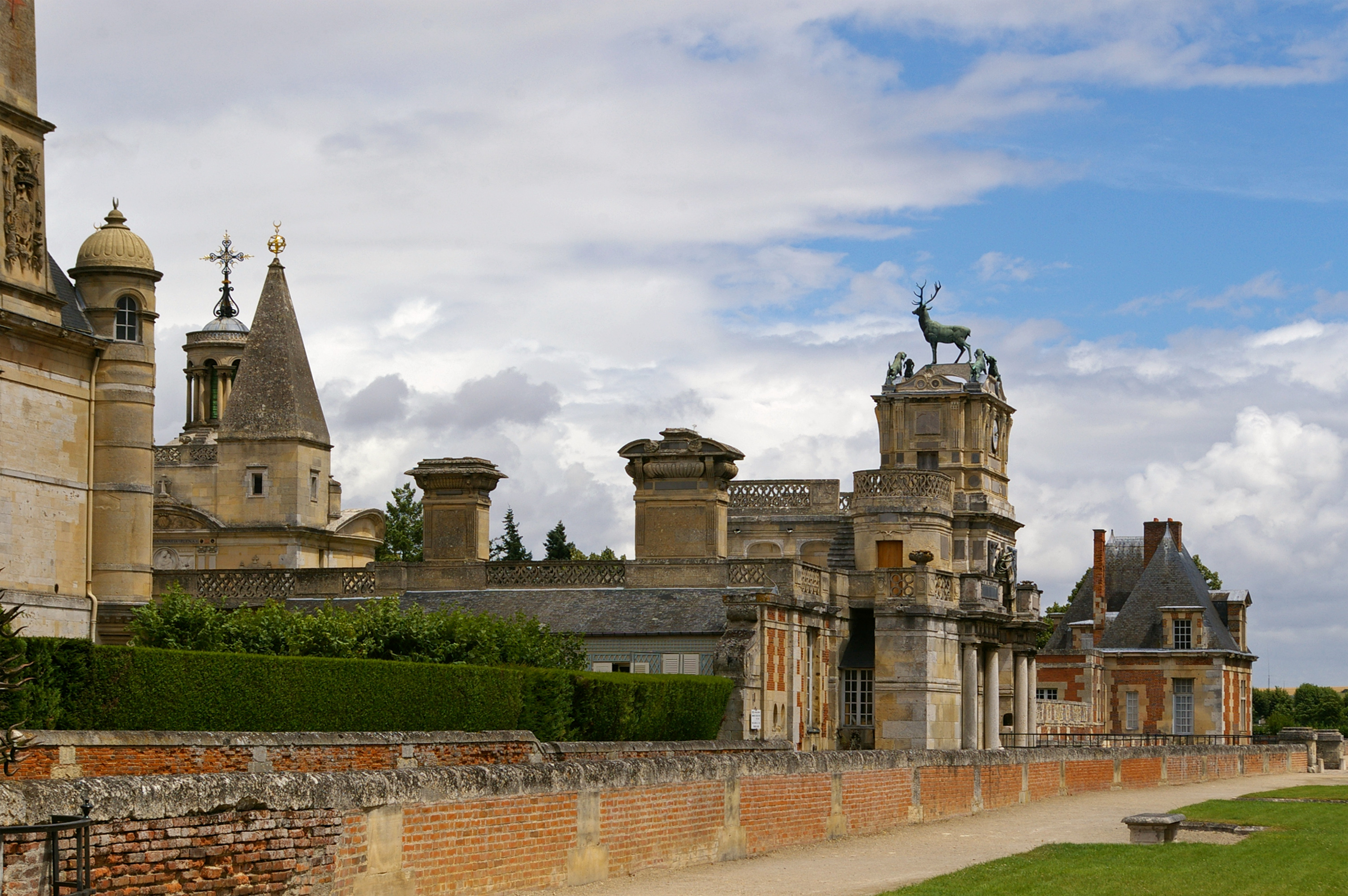 The Château d'Anet, southern aspect